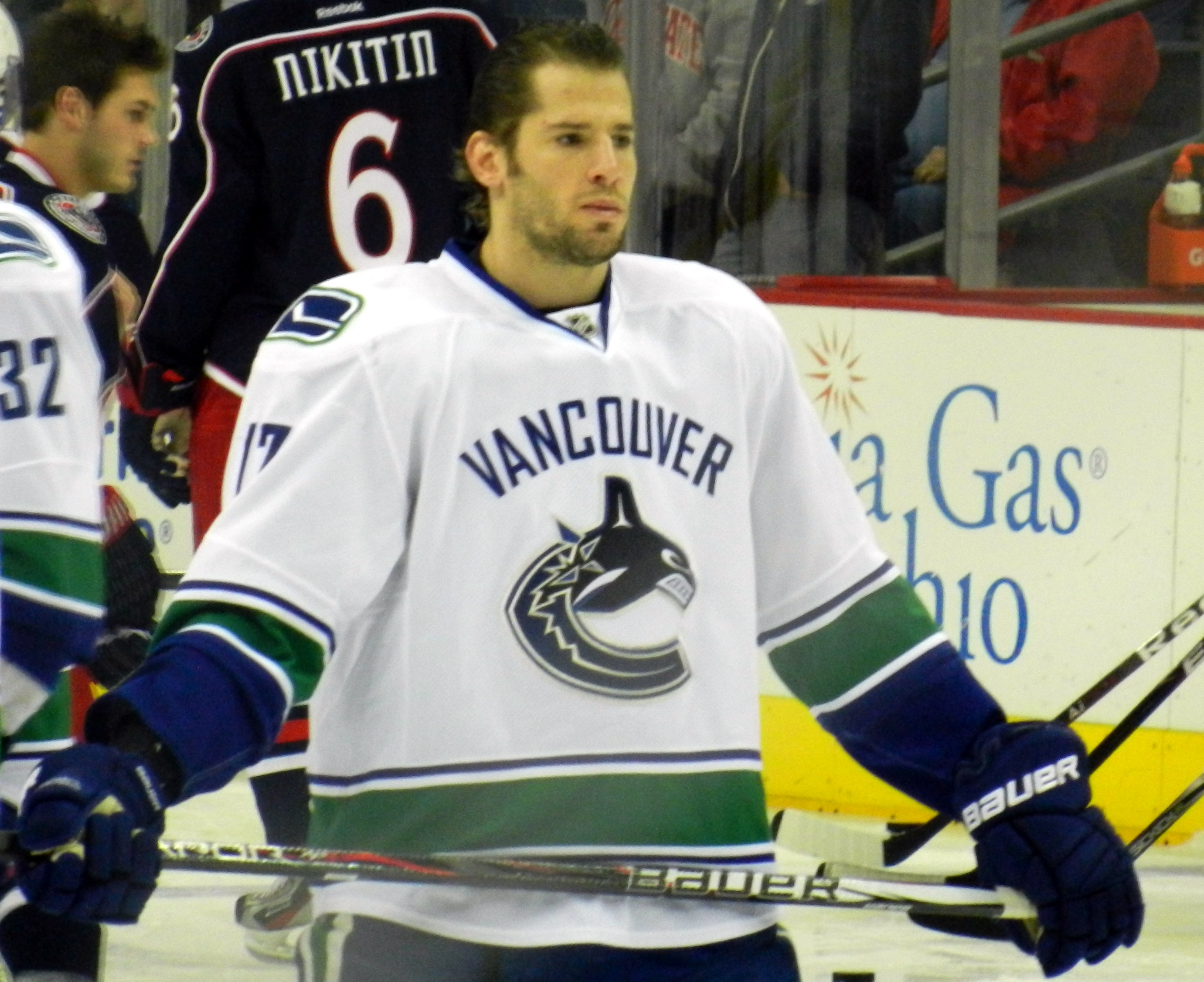 Ryan Kesler playing for the Vancouver Canucks during warm-up of a game vs. the Columbus Blue Jackets in the 2011-12 season. Vancouver lost the game 2-1 in a shoot-out